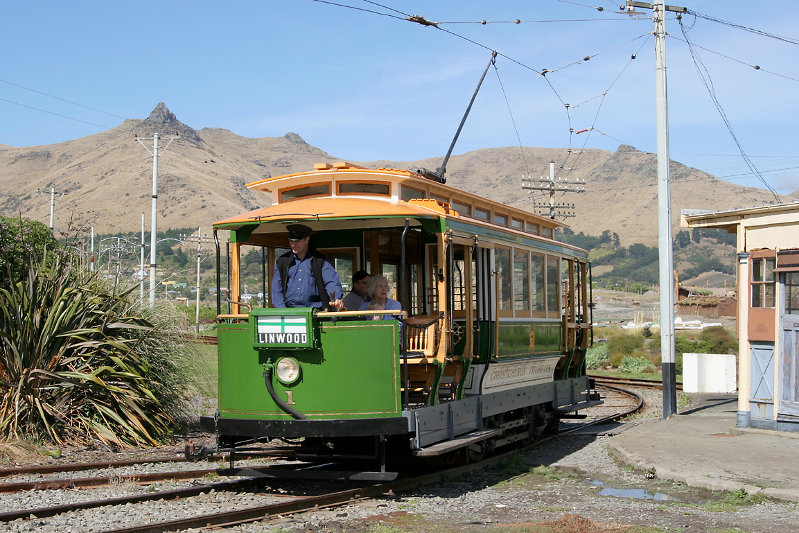 Christchurch Stephenson tram No 1 at Ferrymead Tramway